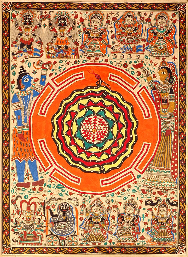 The Ten Mahavidyas,Siva and Sakti, with Serpent Coiled Shri Yantra